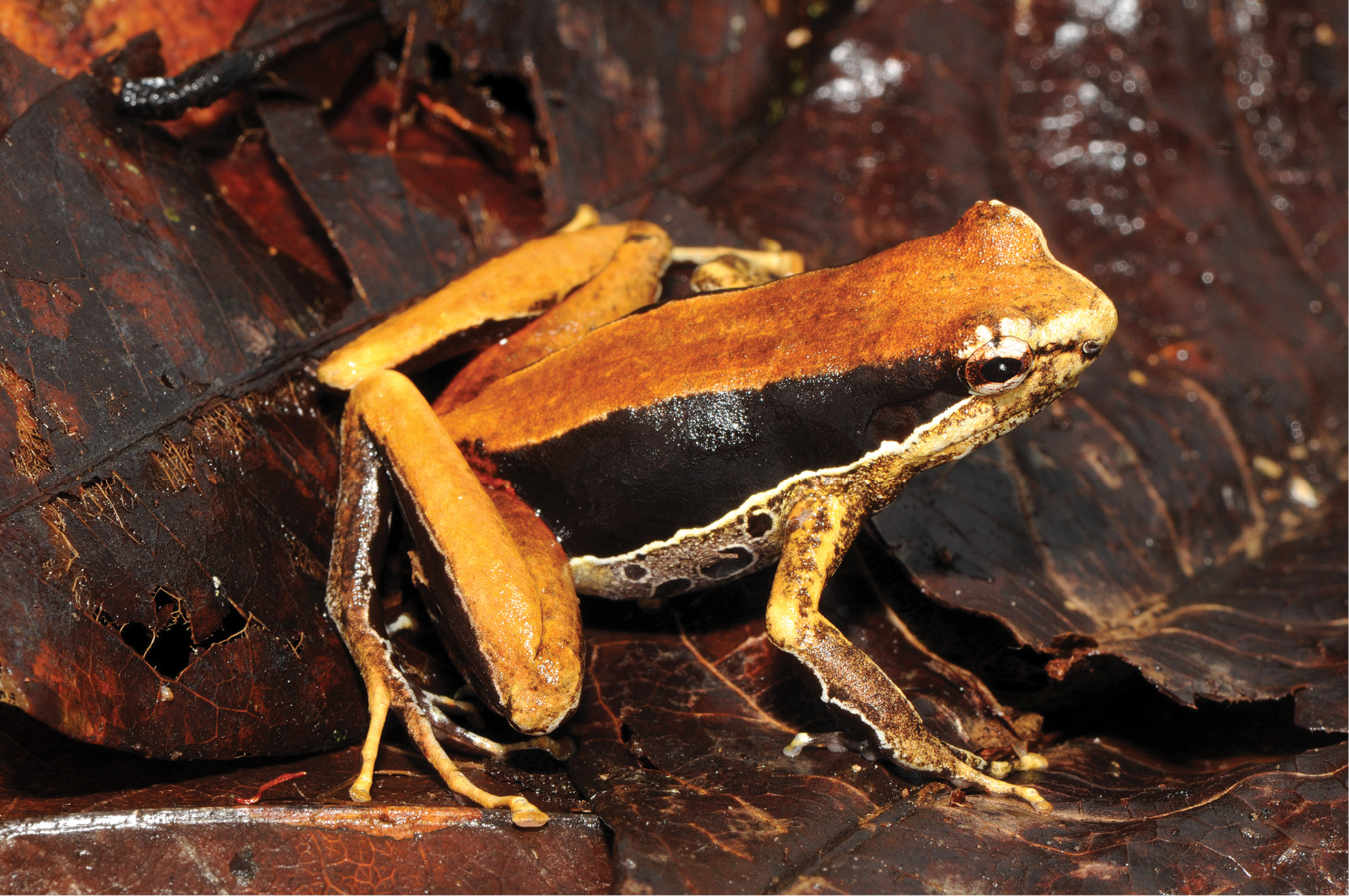 Holotype of Mantophryne insignis, a male in dorsolateral view